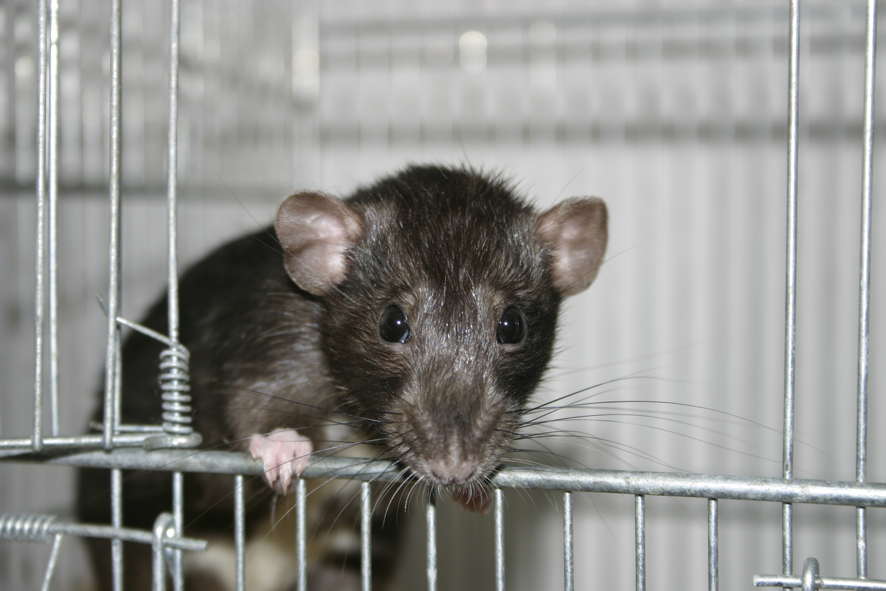 Female pet rat, 5 months old, with dumbo ears.